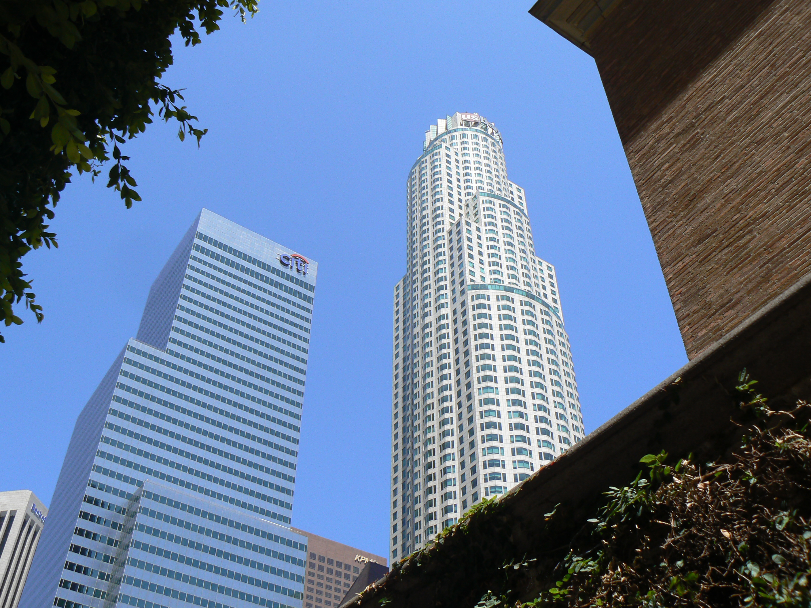 Citigroup Center and U.S. Bank Tower in downtown Los Angeles.